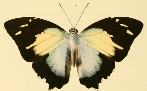 Detail of Agatasa calydonia taken from Illustrations of new species of exotic butterflies: selected chiefly from the collections of W. Wilson Saunders and William C. Hewitson. Volume III.